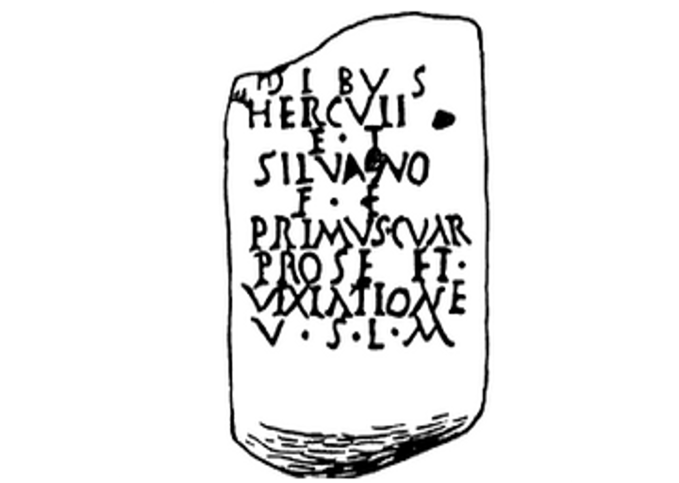 Roman Altar, material: red sandstone, dimensions: W 0.229 × H 0.381 m, dedicated to Hercules and Silvanus, modern location: into the internal face of the south wall of the vestry of Haile Church (GB), found 1883. Inscription: To the gods Hercules and Silvanus, Primus, custos armorum, made this altar for himself and his detachment, paying his vow willingly and deservedly.